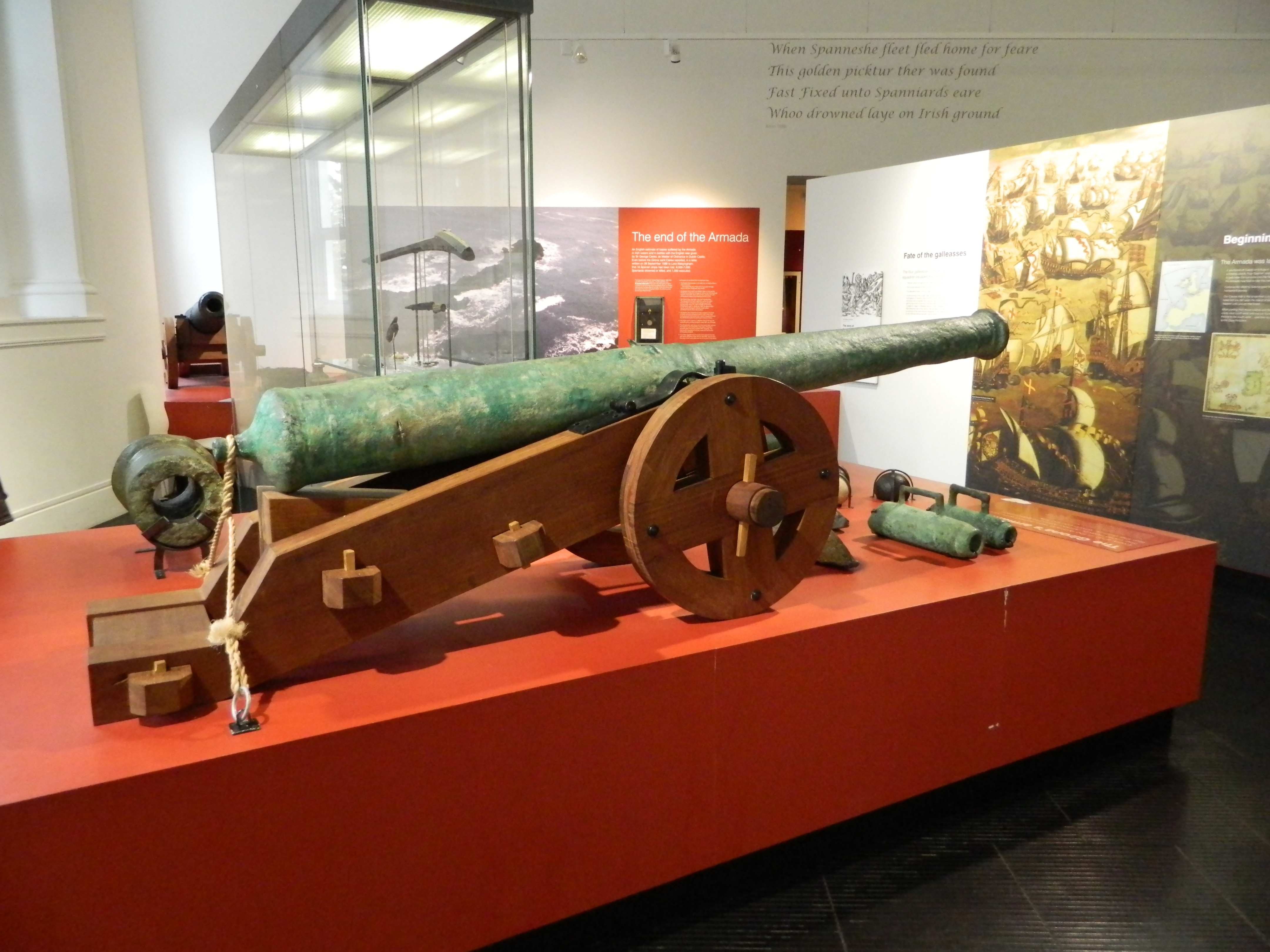 Bronze saker on carriage and other armament from the Spanish Armada ship, Girona, Ulster Museum, Belfast